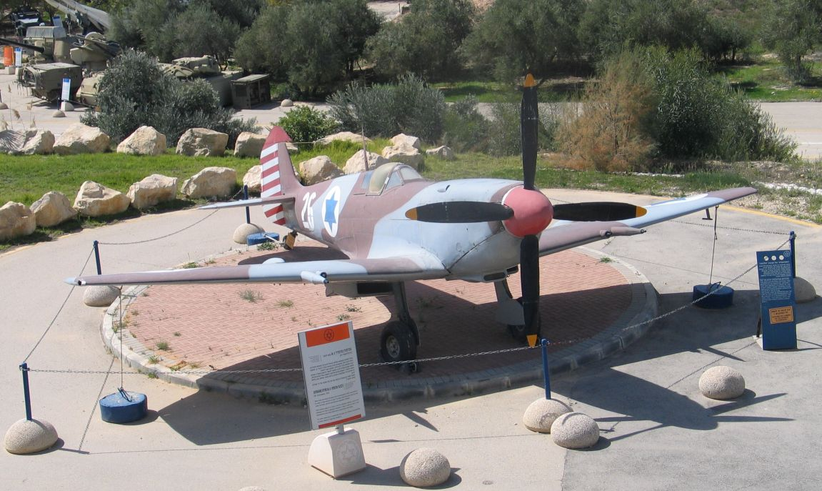 Description: Supermarine Spitfire Mk IX at Muzeyon Heyl ha-Avir, Hatzerim airbase, Israel. 2006. Source: Photo by me, User:Bukvoed.